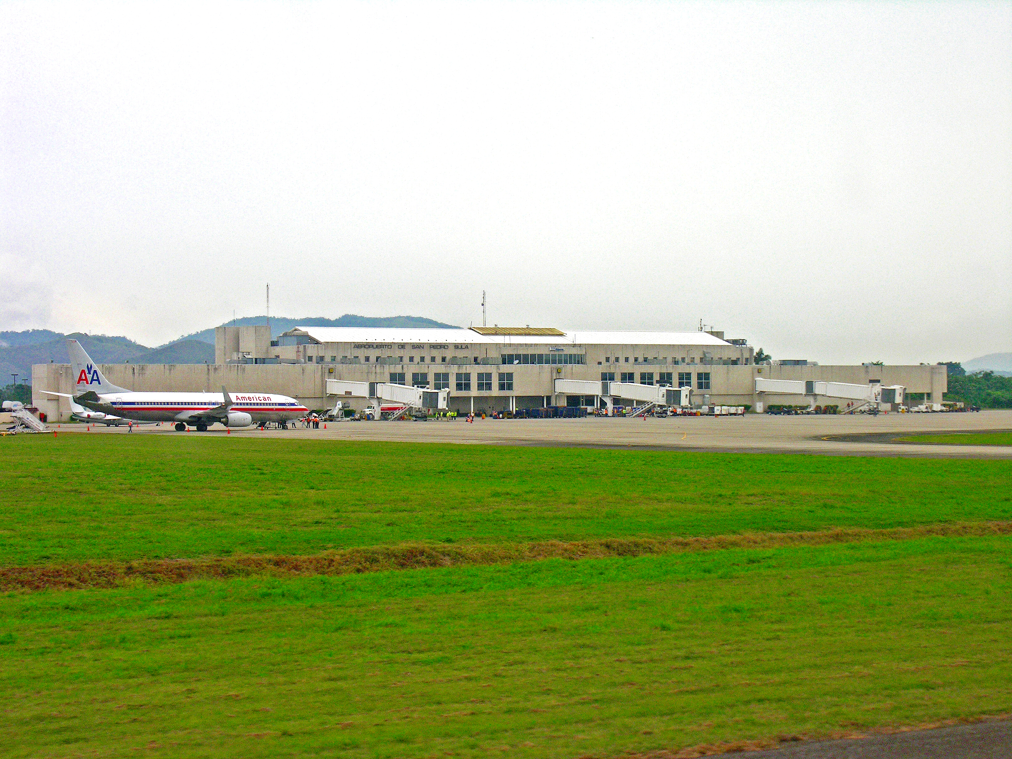 This is the International Airport at San Pedro Sula.